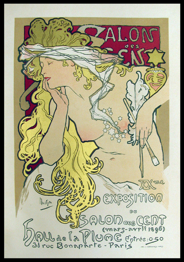 Alphonse_Mucha_Exposition__poster. 1896